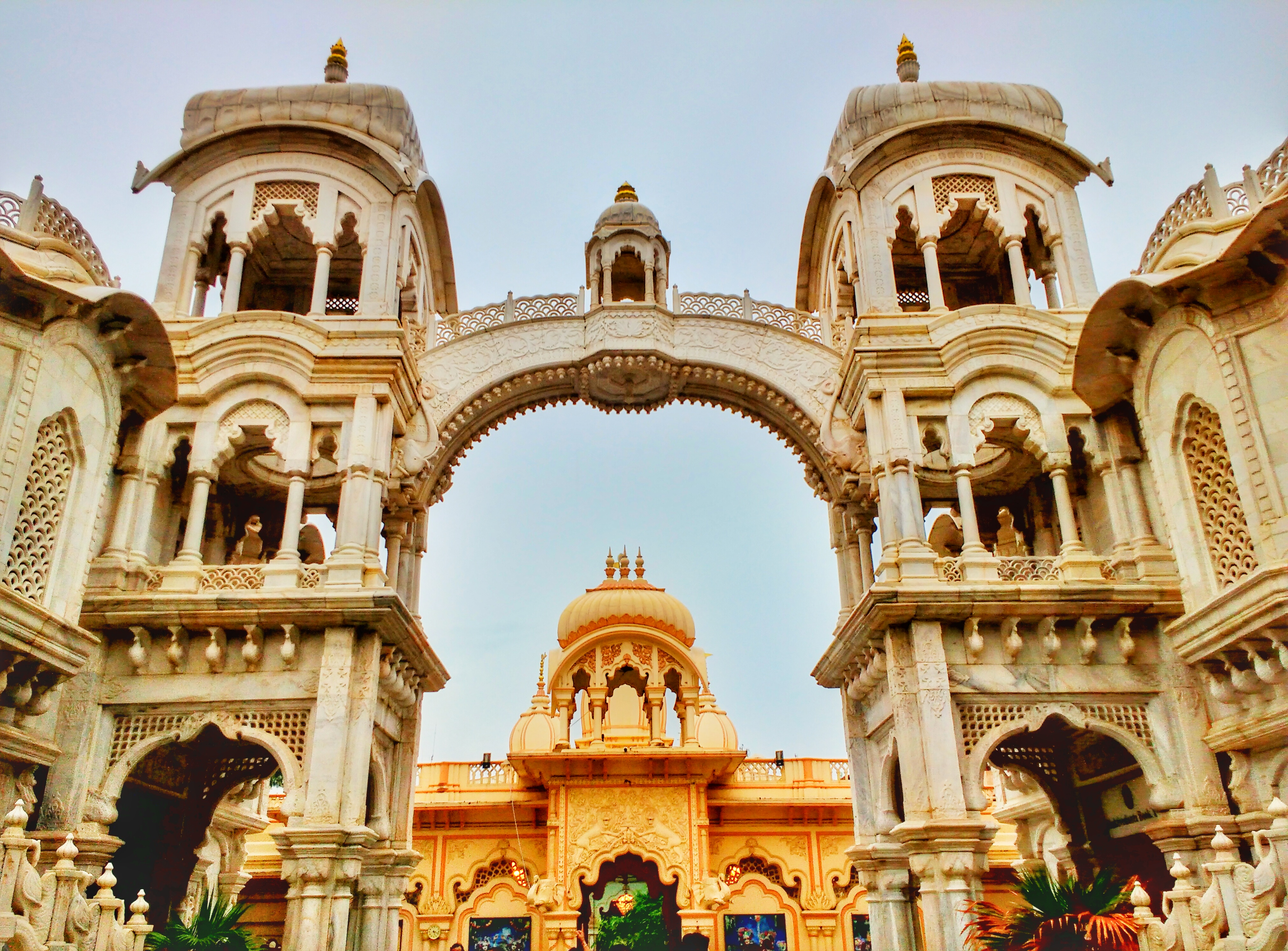 A temple of unparalled beauty for the worship of transcendental brothers Krishna and Balram in the same village where they played more then 5000 years ago.